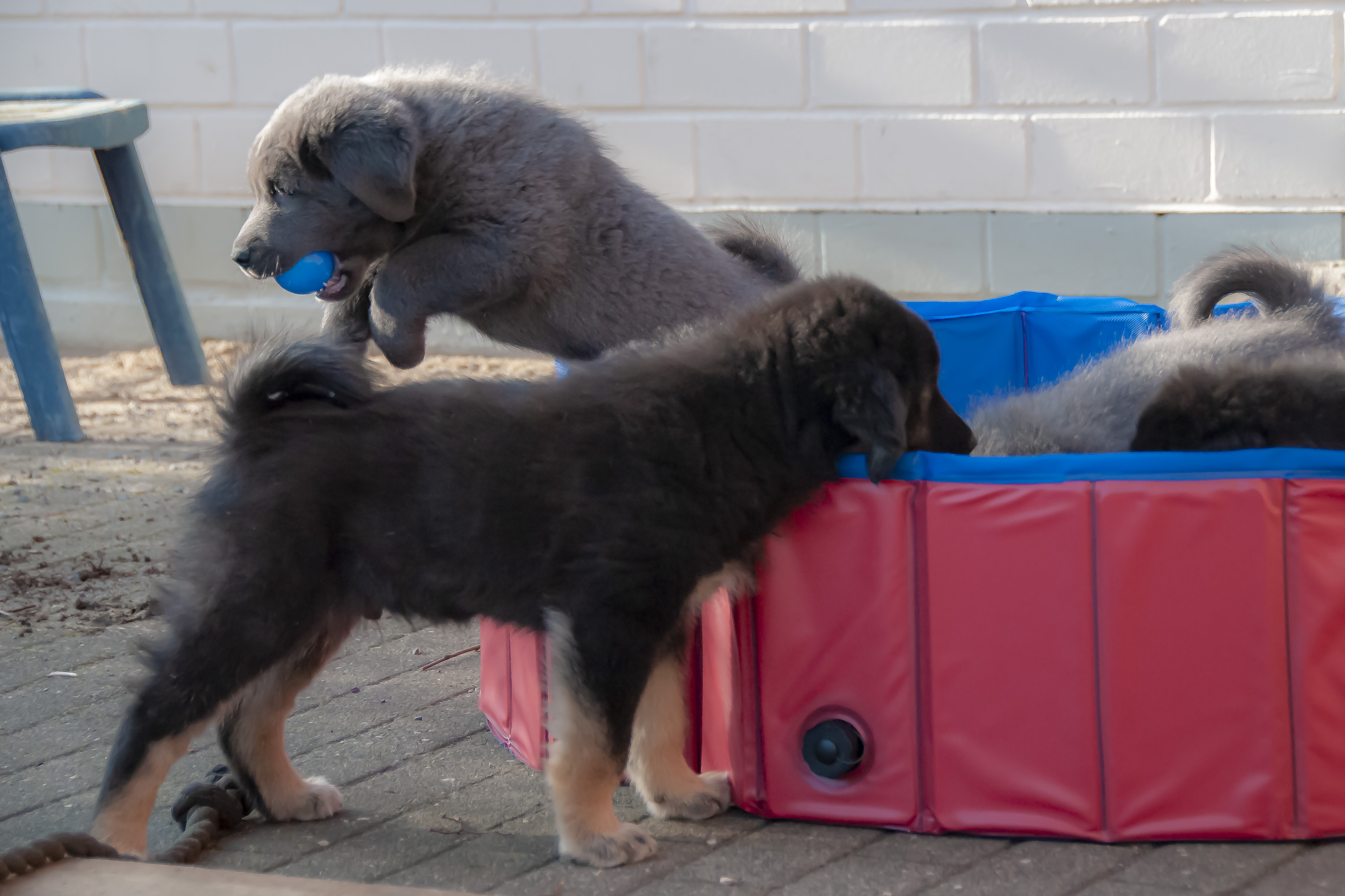 Picture of 4 Do Khyi puppies at 8 weeks of age playing together outside.